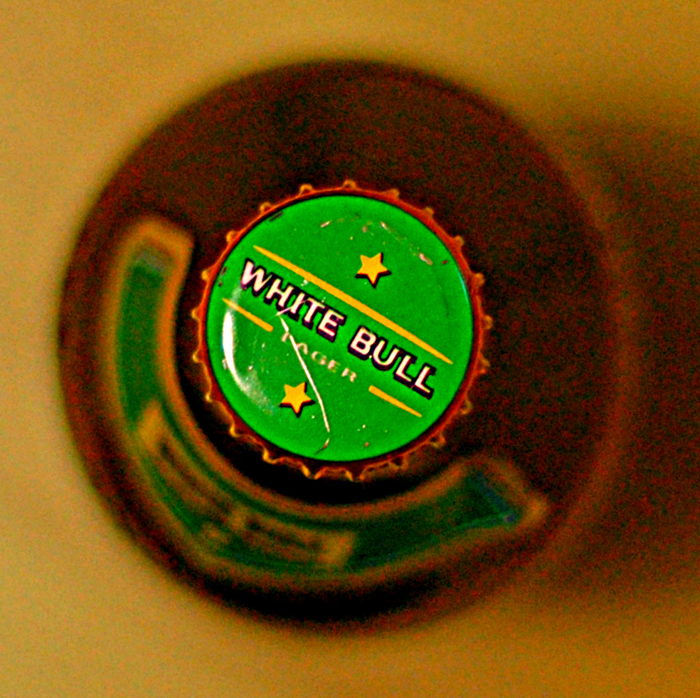 South Sudan's first and only beer. Its motto: "Celebrating Peace and Prosperity." For anyone who knows me, yes, of course I took the brewery tour.